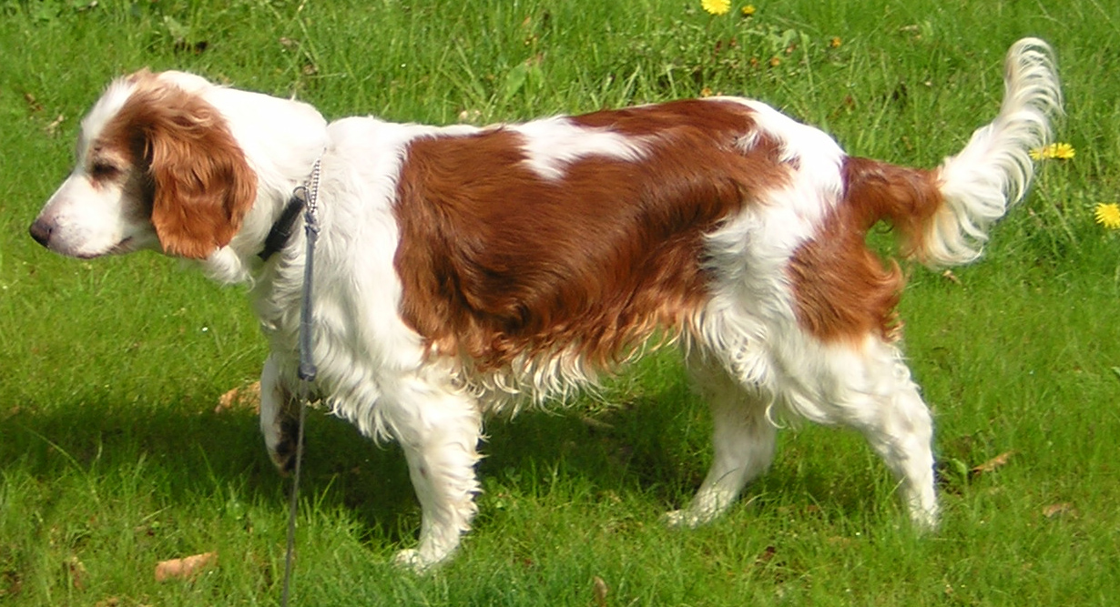 Our Welsh Springer Spaniel "One more time" (Sassa) from the Trigger kennel in Scania, Sweden.